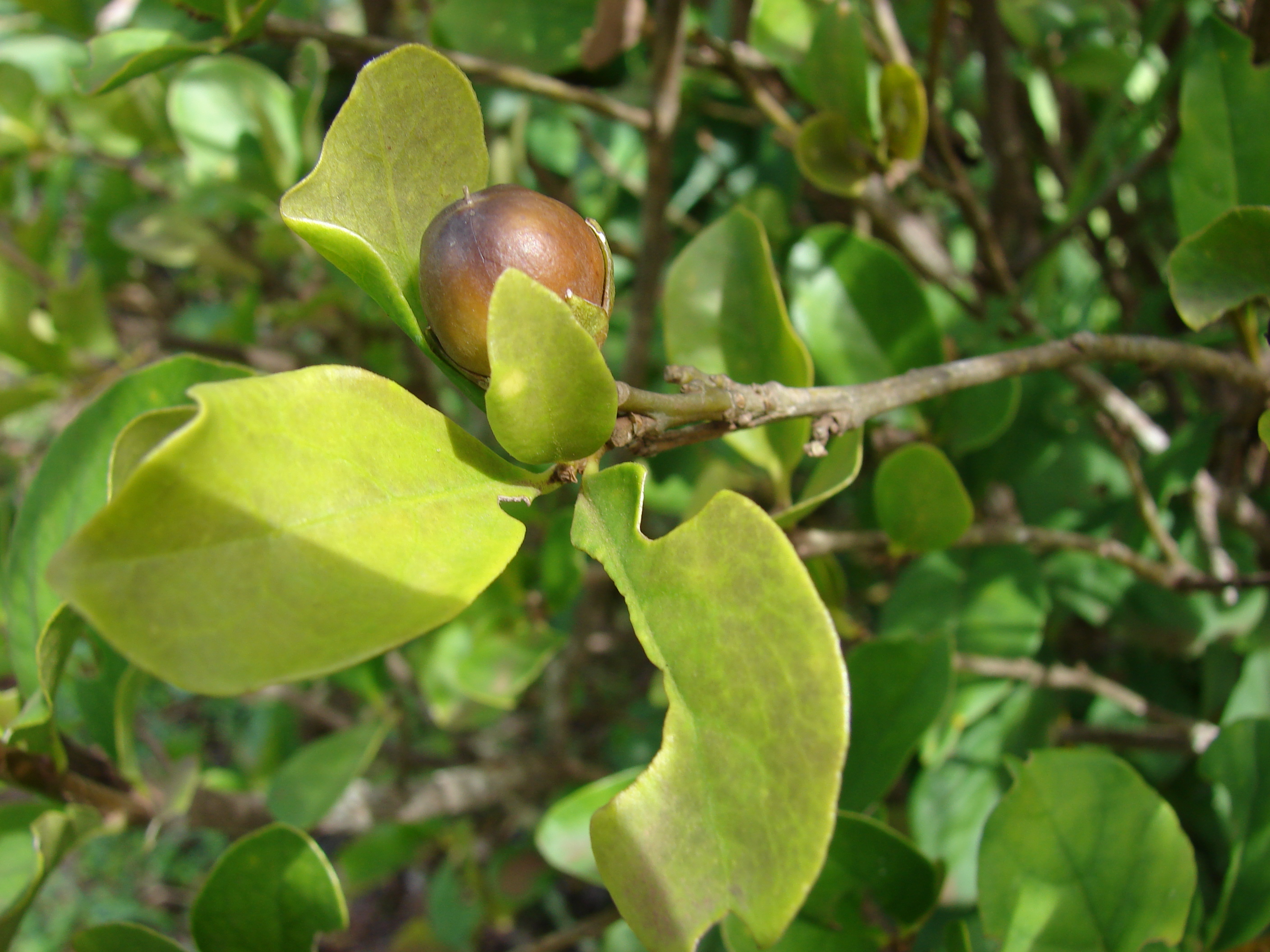 Brunfelsia australis (fruit). Location: Maui, Sun Yat Sen Park Keokea